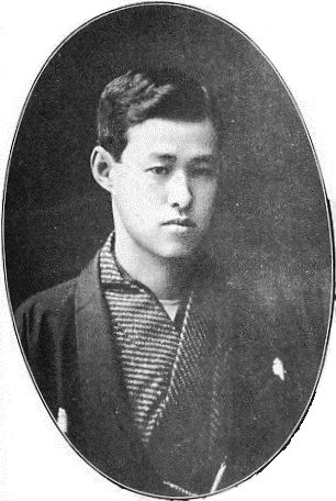 Moritatu Hosokawa